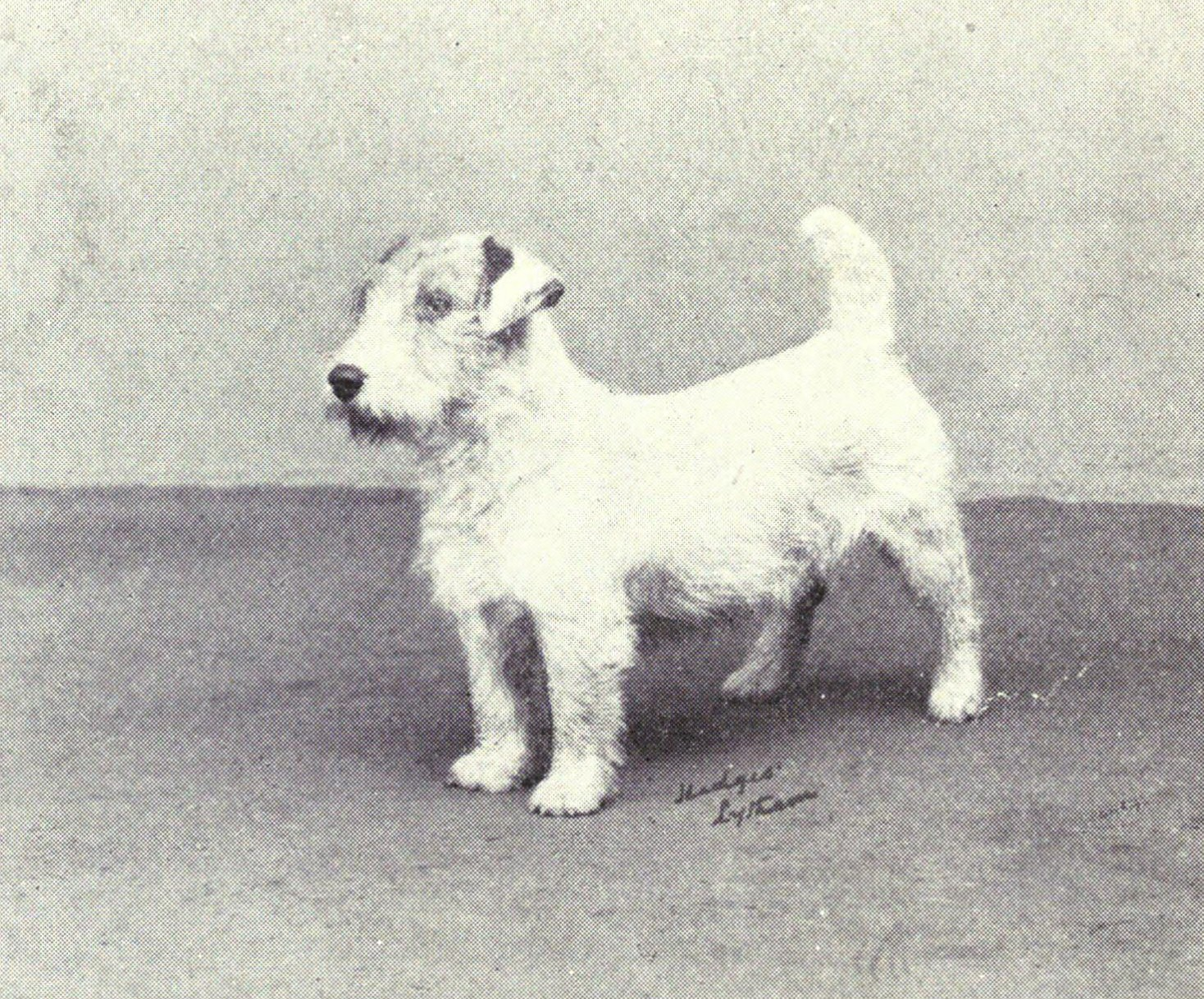 Sealyham Terrier from 1915